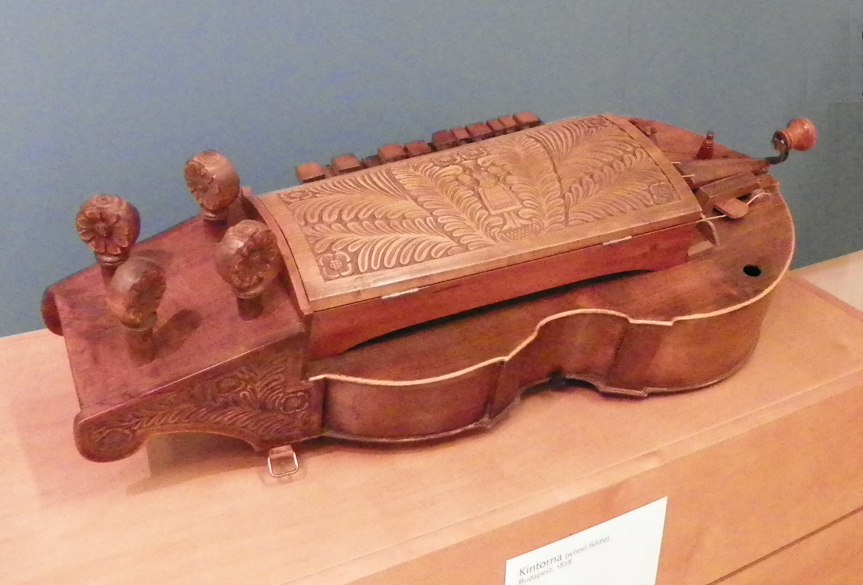 A kintorna (wheel fiddle) Photograph of musical instrument taken at the Musical Instrument Museum (Phoenix) on 2011-04-26.